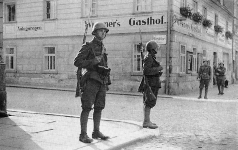 Czechoslovak soldiers in Krásná Lípa - October 1938